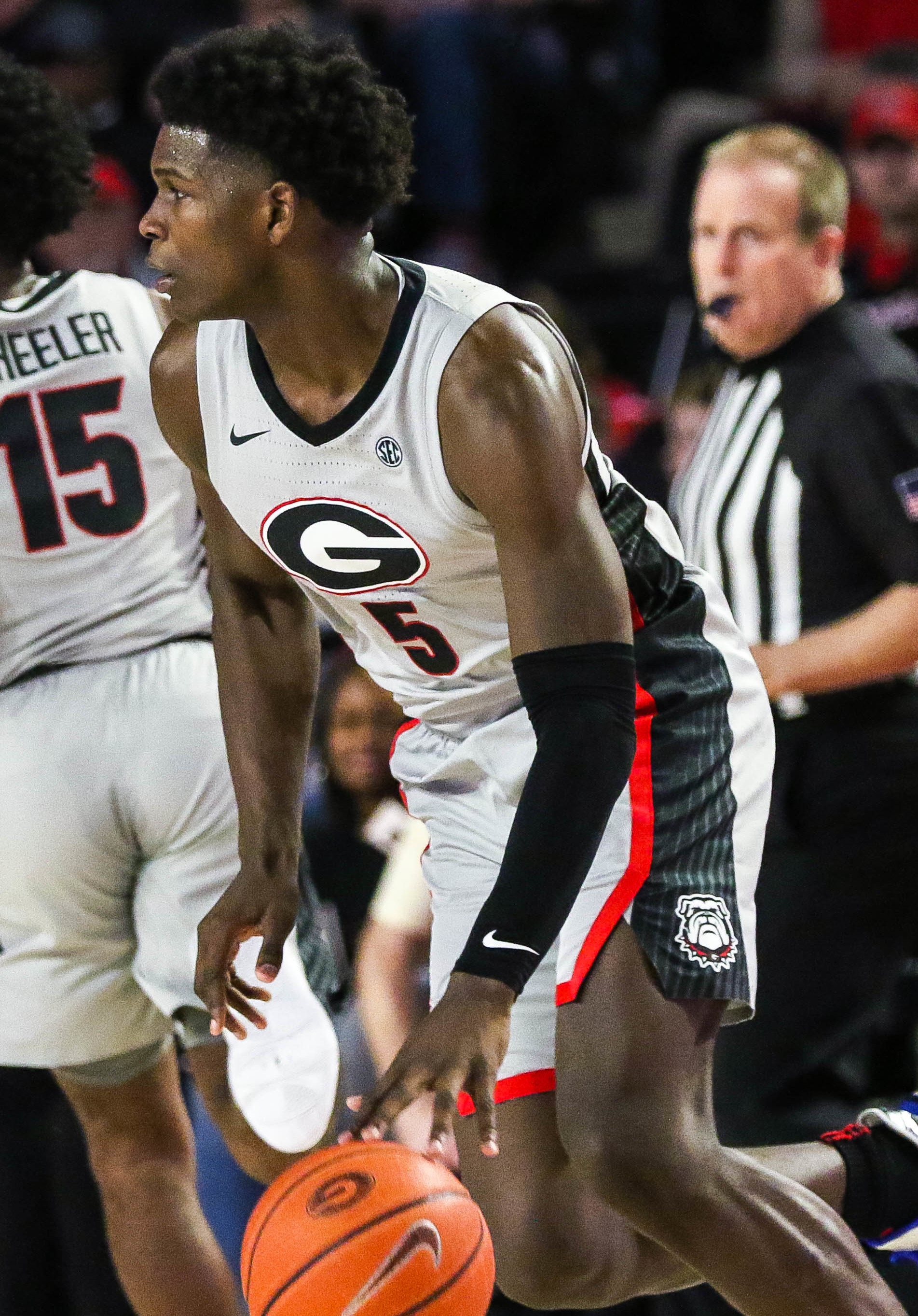 Photo by Katie Dugan